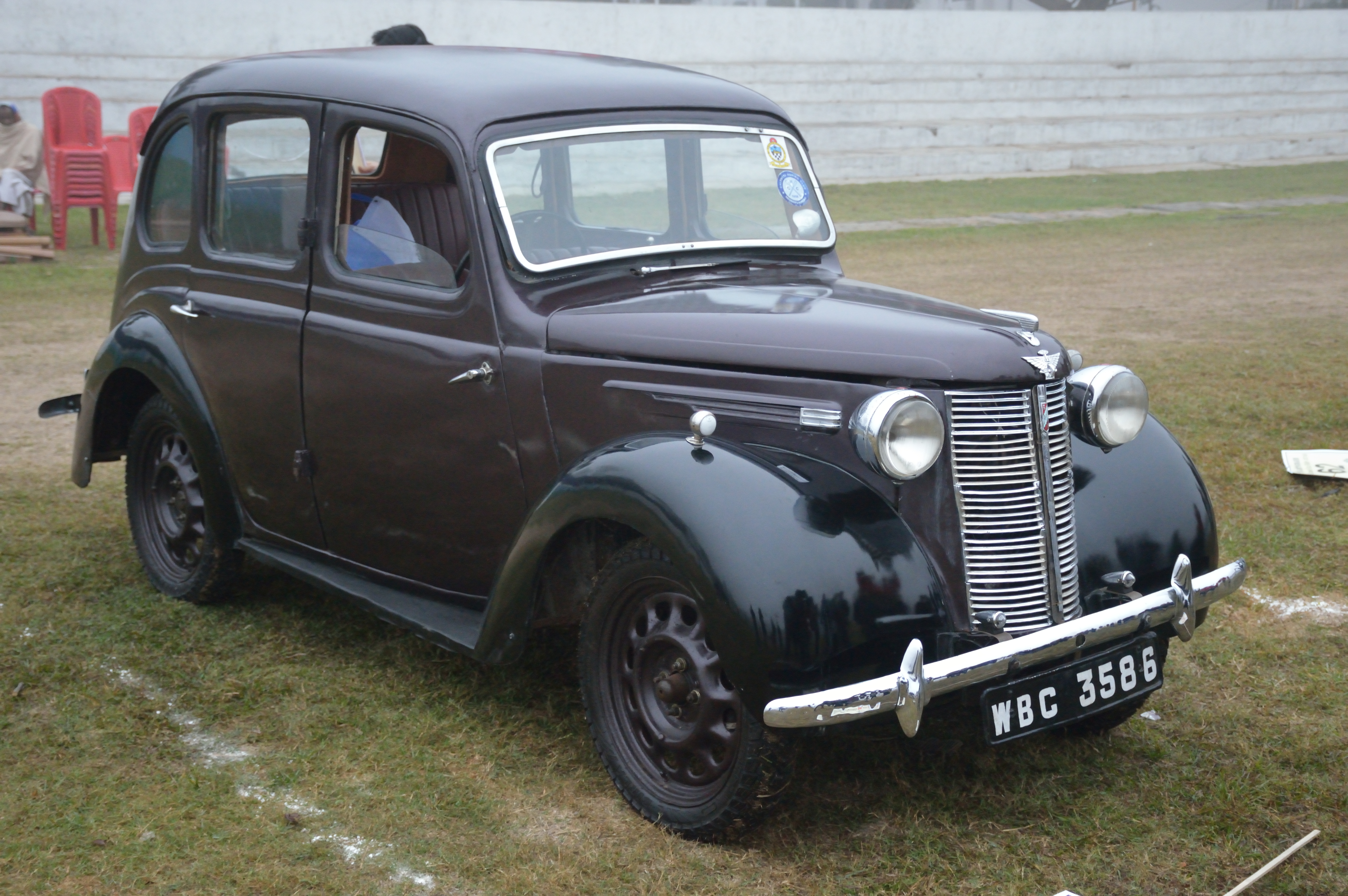 This car was exhibited and took part during ‘The Statesman Vintage & Classic Car Rally 2016’at the Eastern Command Sports Stadium of Fort William, Kolkata.The rally was held at the morning on Sunday, 31 January 2016 at the ECS Stadium, where 196 entrants were registered with cars and two-wheelers manufactured from 1906 to 1971. This one day festival held on the last Sunday of January 2016 in Kolkata since 1968 with full of period costume and cultural period pieces.